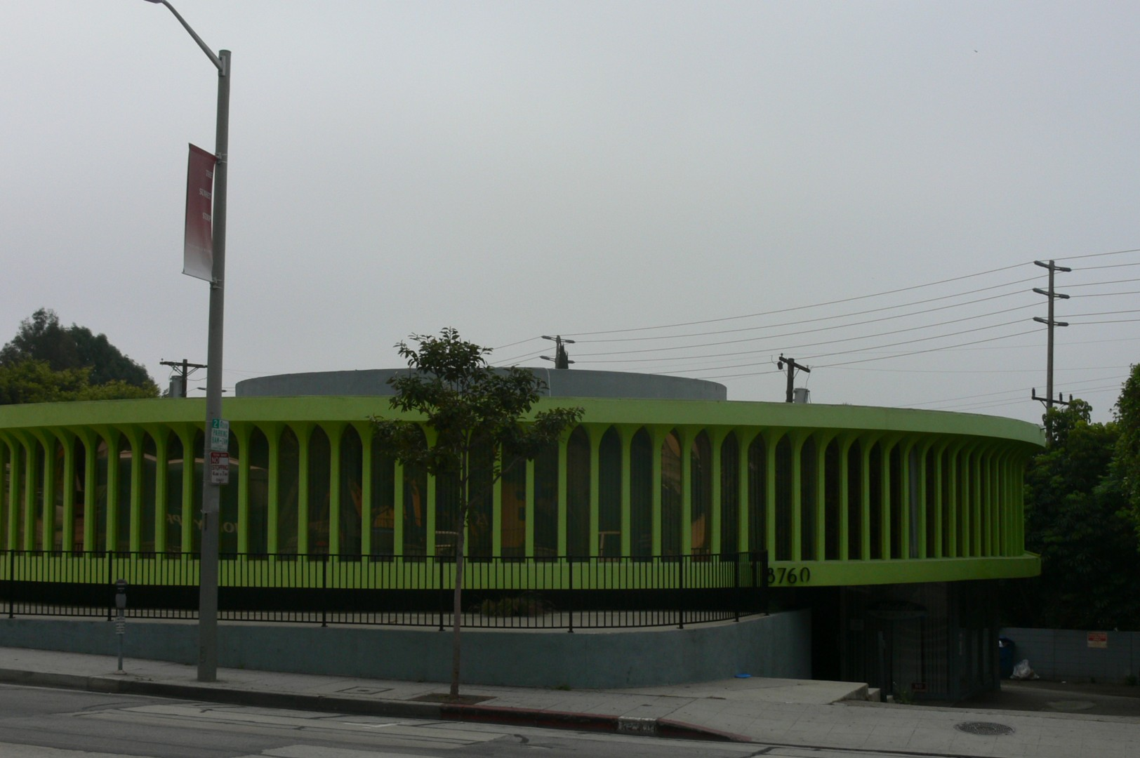 Mutato Muzika building, 8760 W Sunset Blvd., W. Hollywood, CA. Photograph by Mike Dillon, May 10, 2006.